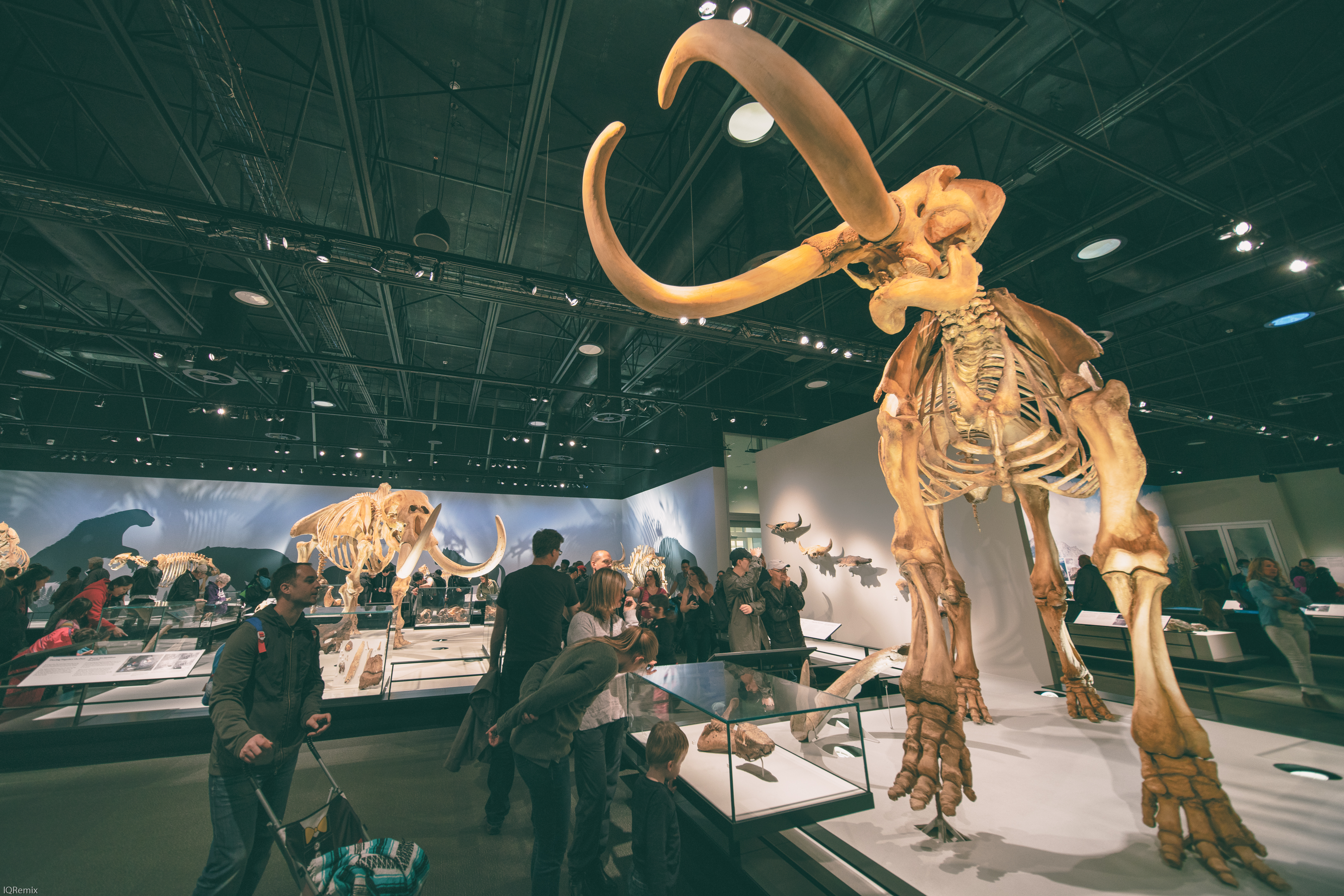 Natural history exhibit at the Royal Alberta Museum